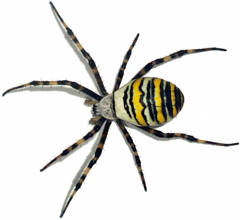 Argiope bruennichi, or the wasp spider, is a species of orb-web spider distributed throughout central Europe, Northern Europe, north Africa and parts of Asia. Like many other members of the genus Argiope, (including St Andrew's Cross spiders), it shows striking yellow and black markings on its abdomen.